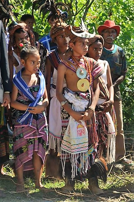 Chidren in Betano